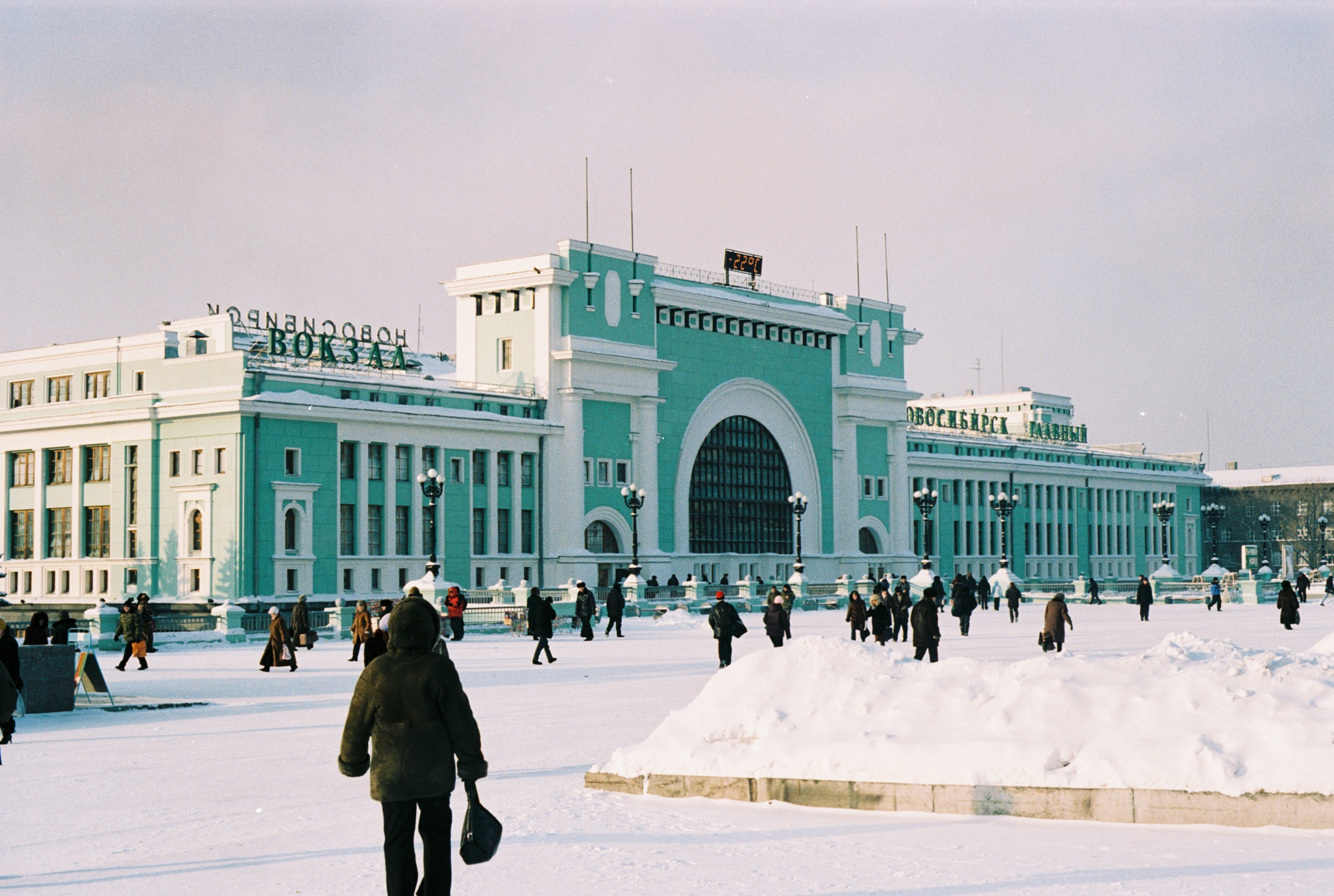 Railway station of Novosibirsk in winter